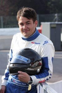 kristjan einar